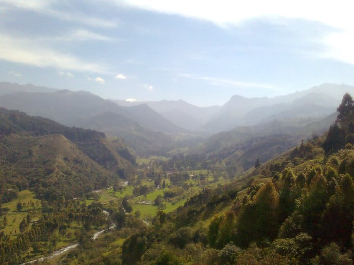 Vista del Valle de Cocora desde el mirador de Salento